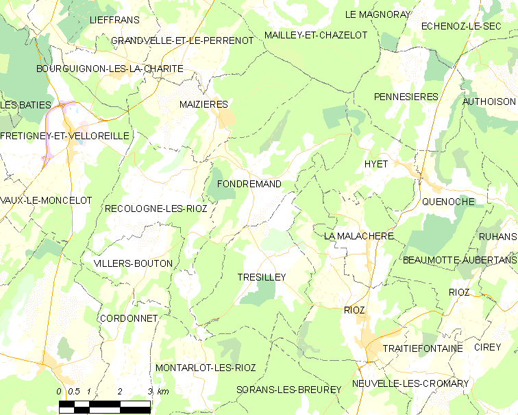 Map of French municipality